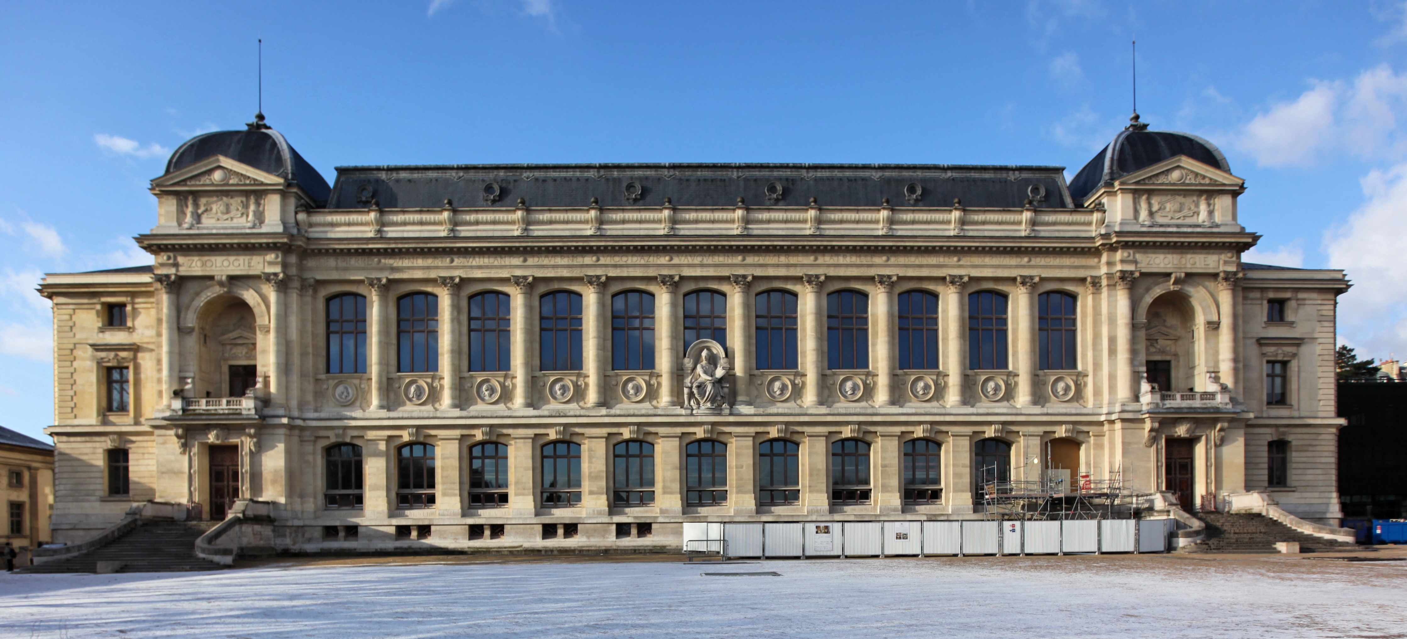 Façade of the grande galerie de l'Évolution (Gallery of Evolution), which is a zoology museum building belonging to the French National Museum of Natural History. The building is located in the Jardin des plantes in Paris.